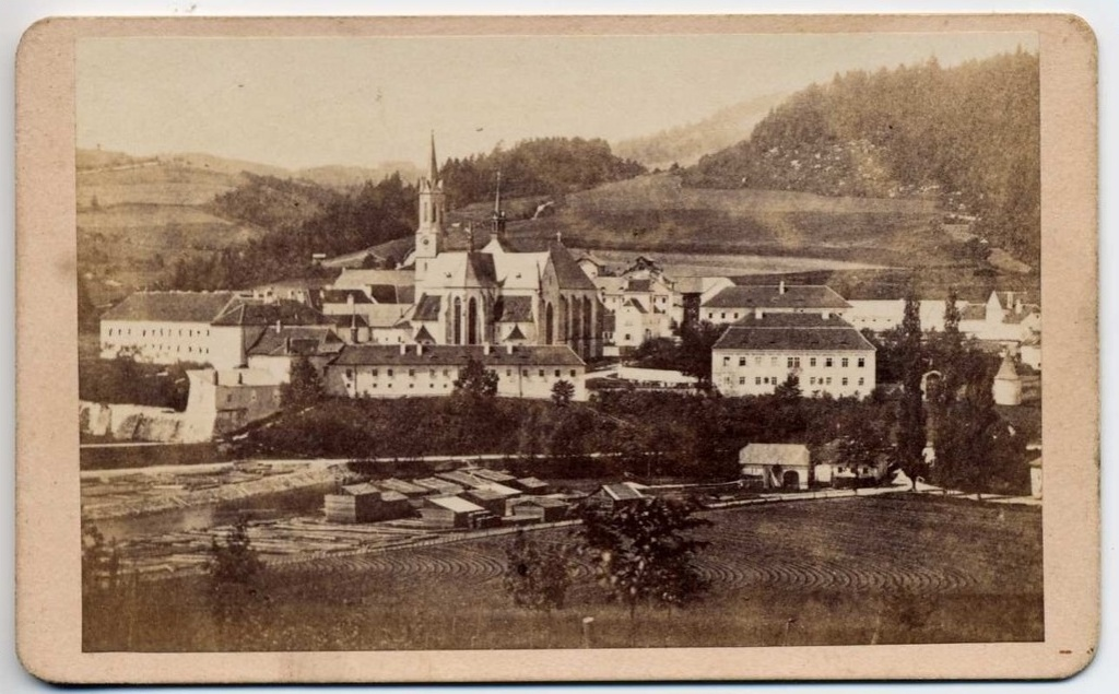 Vyšší Brod (Hohenfurt) monastery in soutern Bohemia. Photographer Franz Polak, Český Krumlov (Bohemia, Czechia), circa 1870.